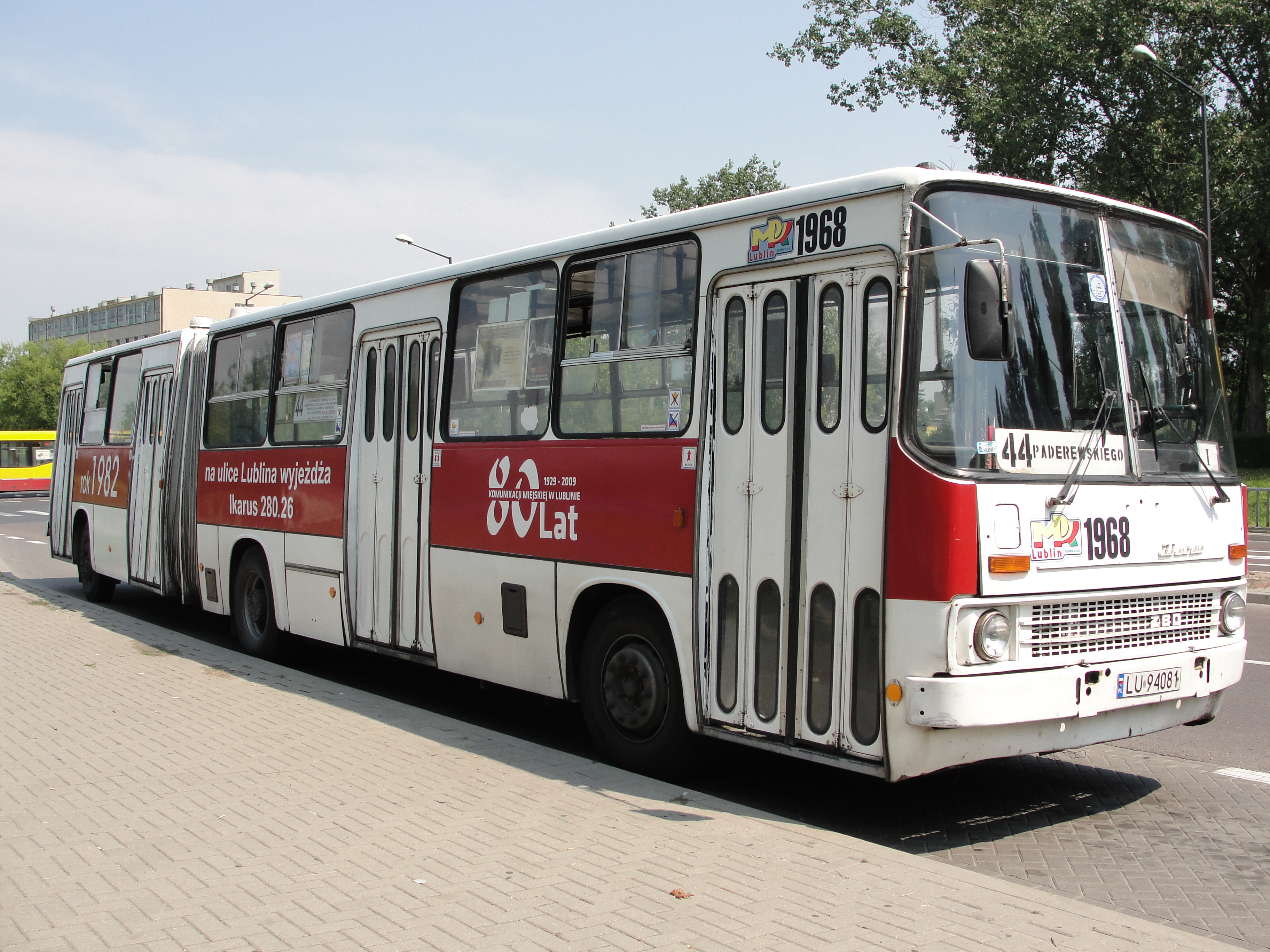 Ikarus 280.26 city bus (#1968) in Lublin, Poland. Built 1985, MPK Lublin company.